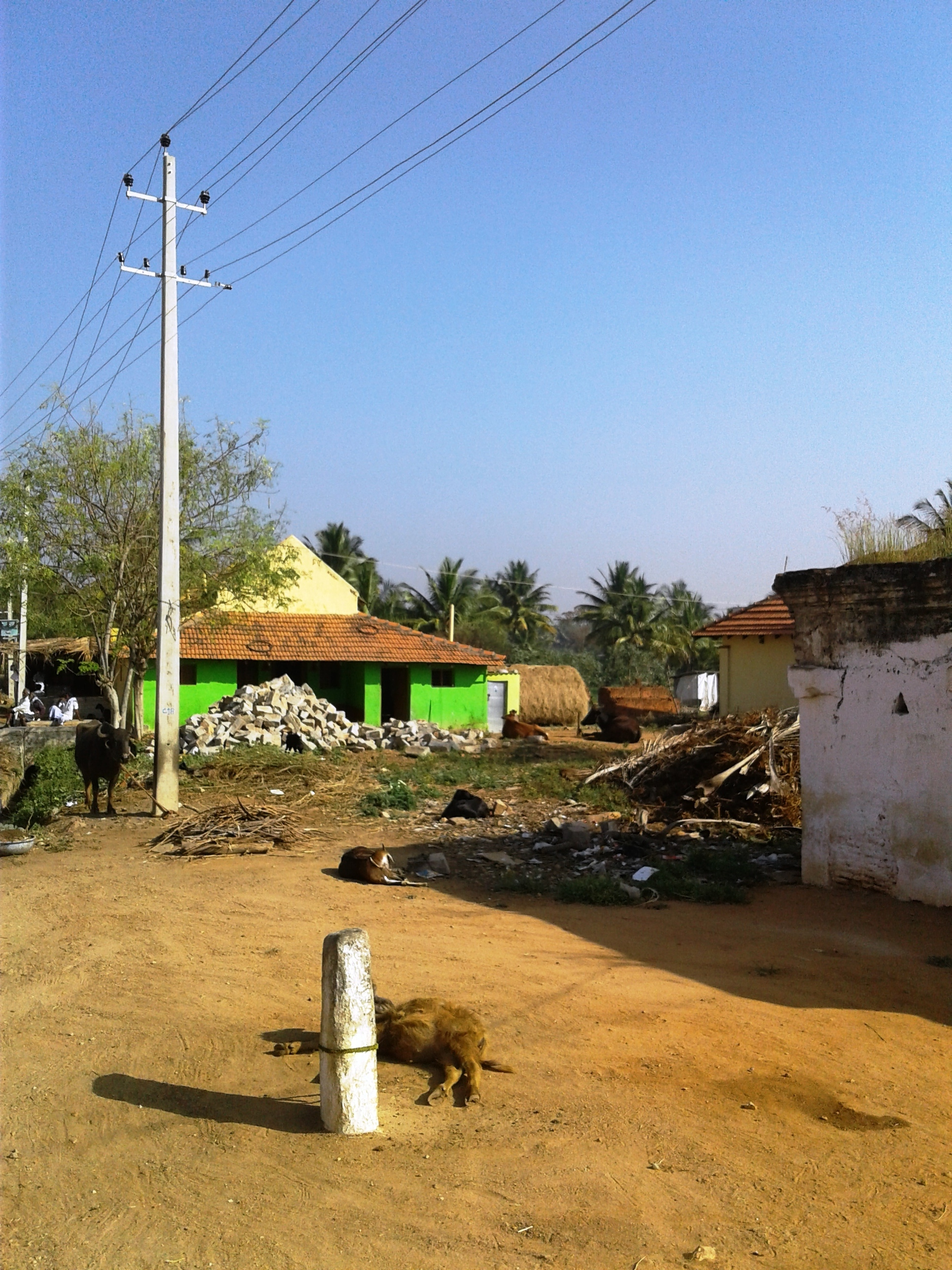 Srirangapatna, Mandya district, Karnataka state, India.